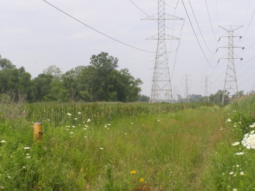 Calumet Prairie Nature Preserve, Gary, Indiana